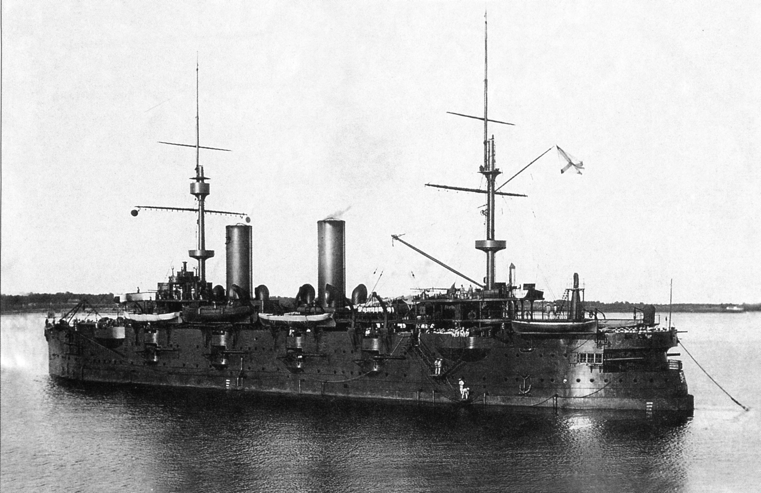 Imperial Russian gun-training ship Petr Velikiy.